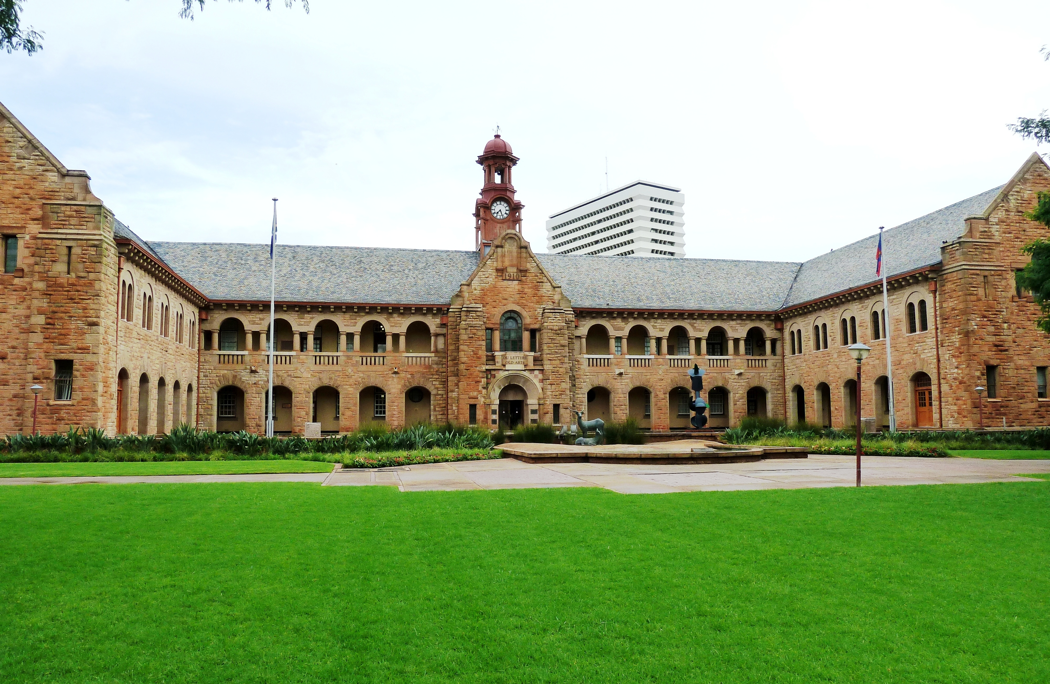 Old Arts building at the University of Pretoria